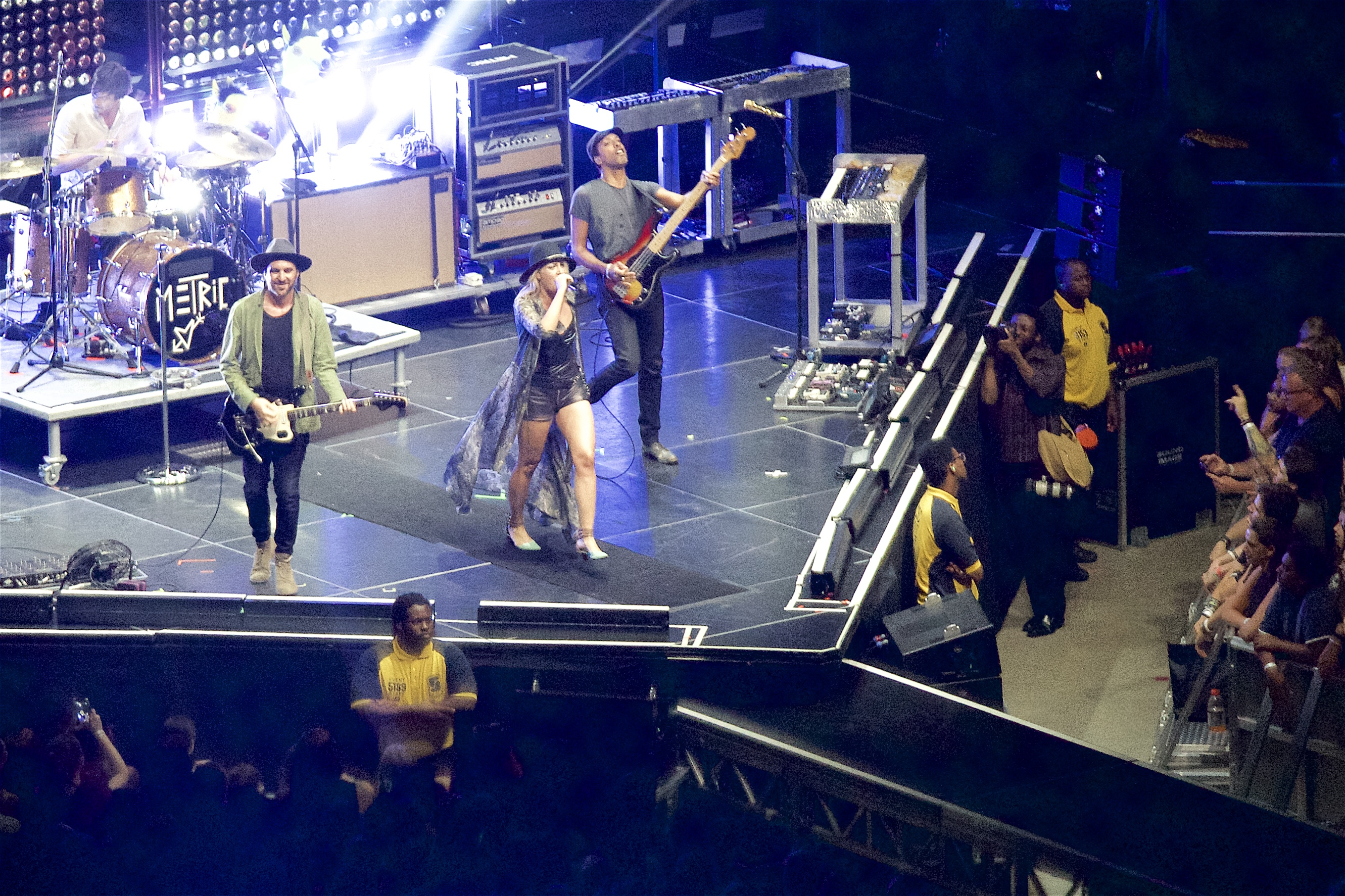 Metric live in concert at Verizon Center, Washington, D.C., July 6, 2015.